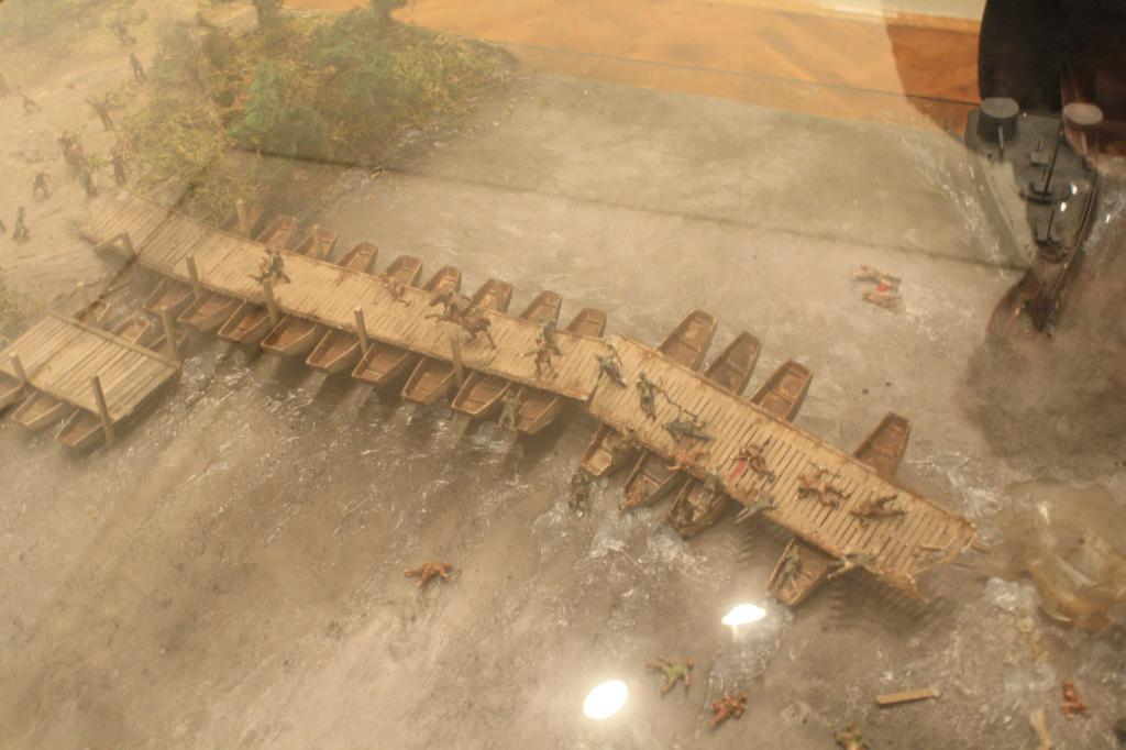 Diorama of battle of Legat 1914